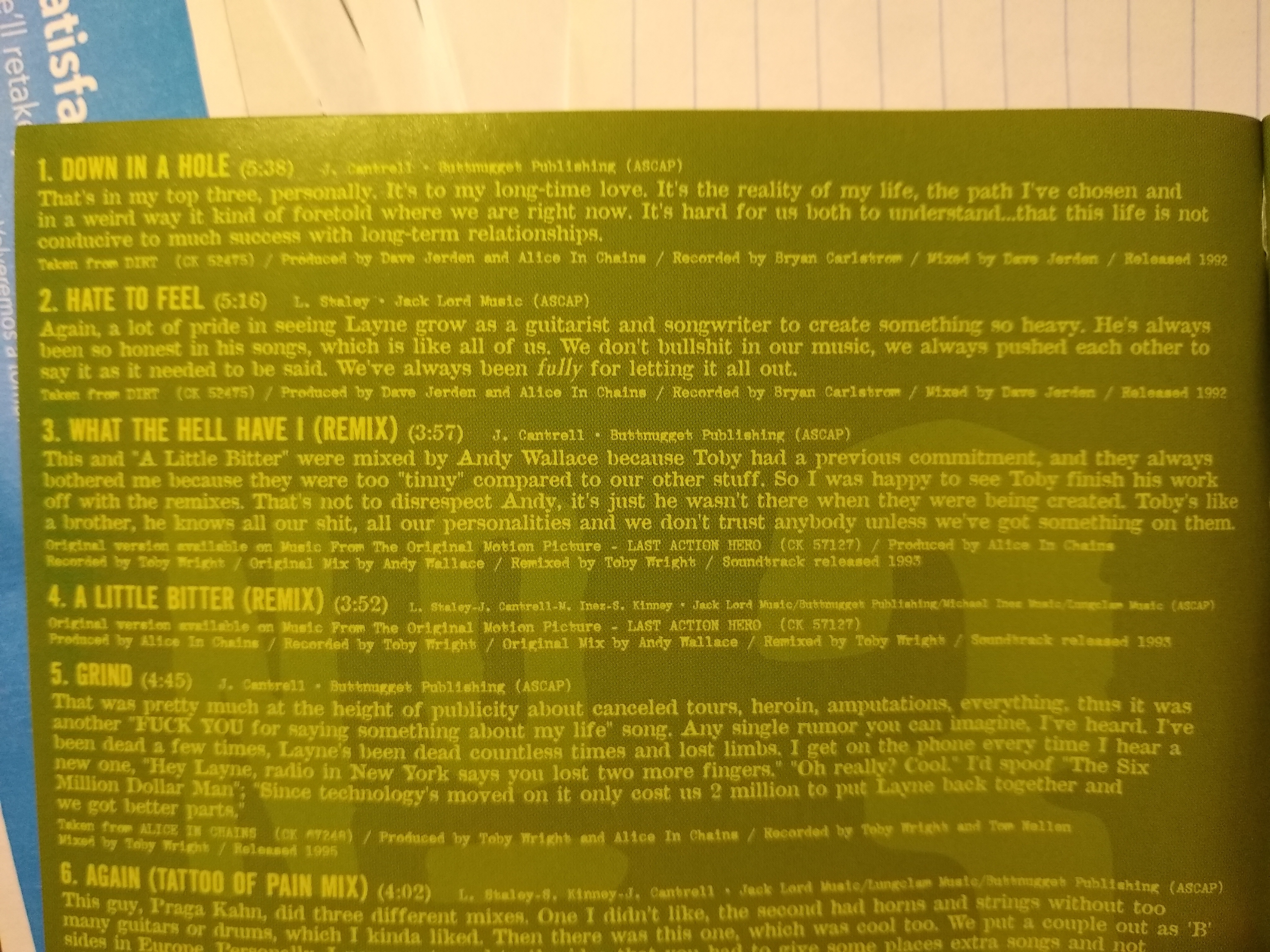 Alice in Chains - Music Bank. Liner notes